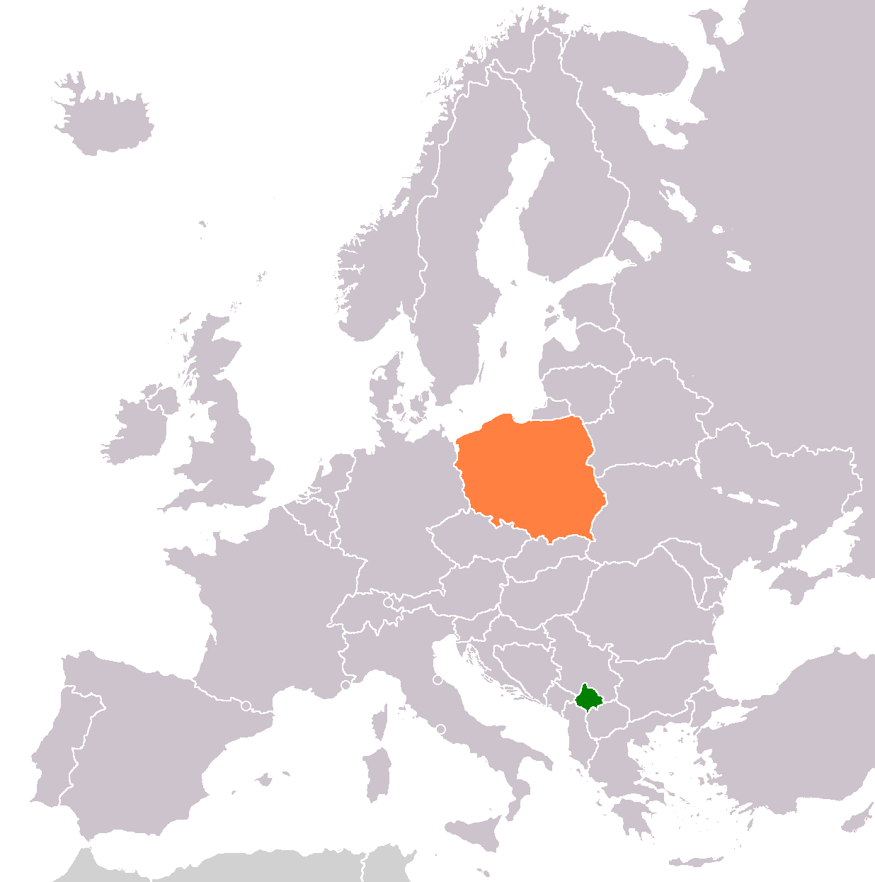 Location of Kosovo and Poland